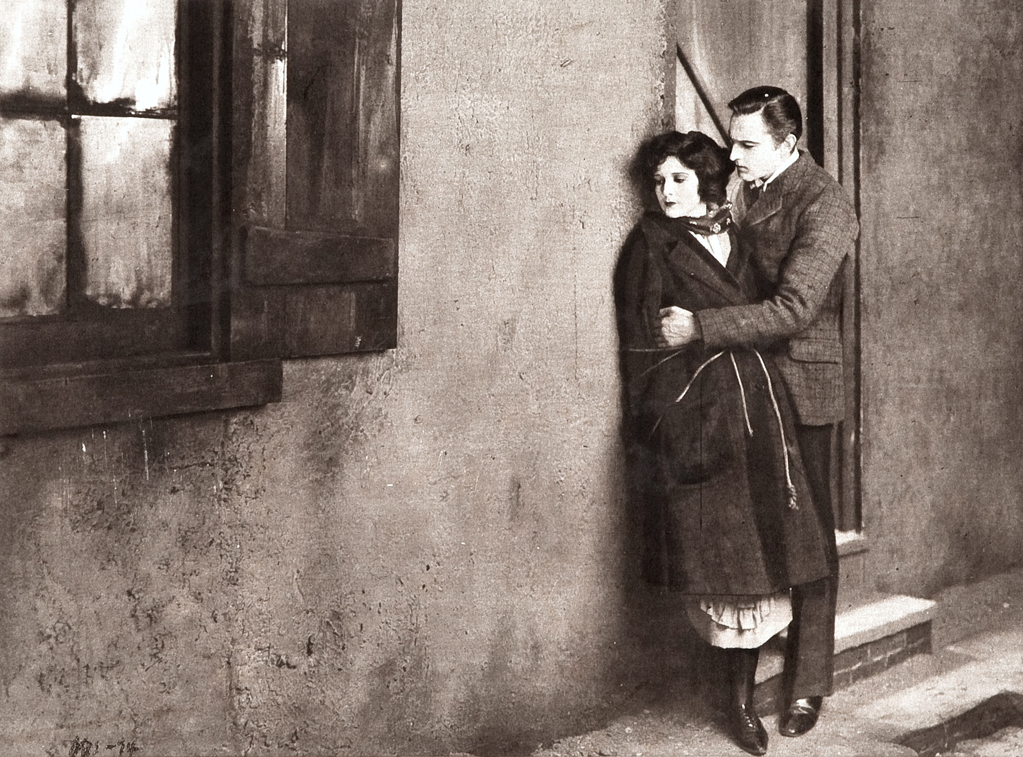 Sherlock Holmes (released as Moriarty in the UK) is a 1922 American silent mystery drama film starring John Barrymore as Sherlock Holmes and Roland Young as Dr. John Watson. This is a scene from the film. Original caption: Even a master detective may lose his heart